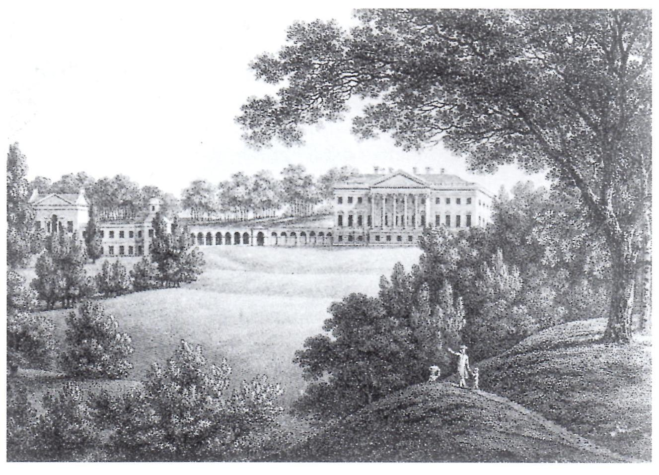 A Drawing of Prior Park, Bath by W. Wills after Thomas Hearne (1785) incorrectly showing 13 bays in the main house